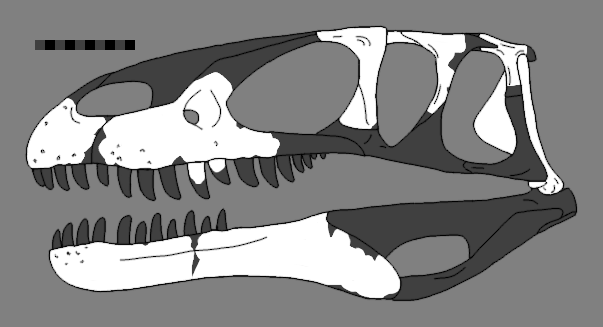 Reconstructed skull of Eustreptospondylus oxoniensis showing known material (white) of the holotype and only known specimen. Unknown bones based on related Dubreuillosaurus valesdunensis. Scale bar is 10cm, image is 10px/cm. Cranial anatomy based on Sadlier et al. (2008) "The anatomy and systematics of Eustreptospondylus oxoniensis, a theropod dinosaur from the Middle Jurassic of Oxfordshire, England".